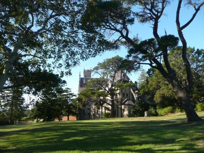 St Patrick's Seminary: St Patrick's Estate